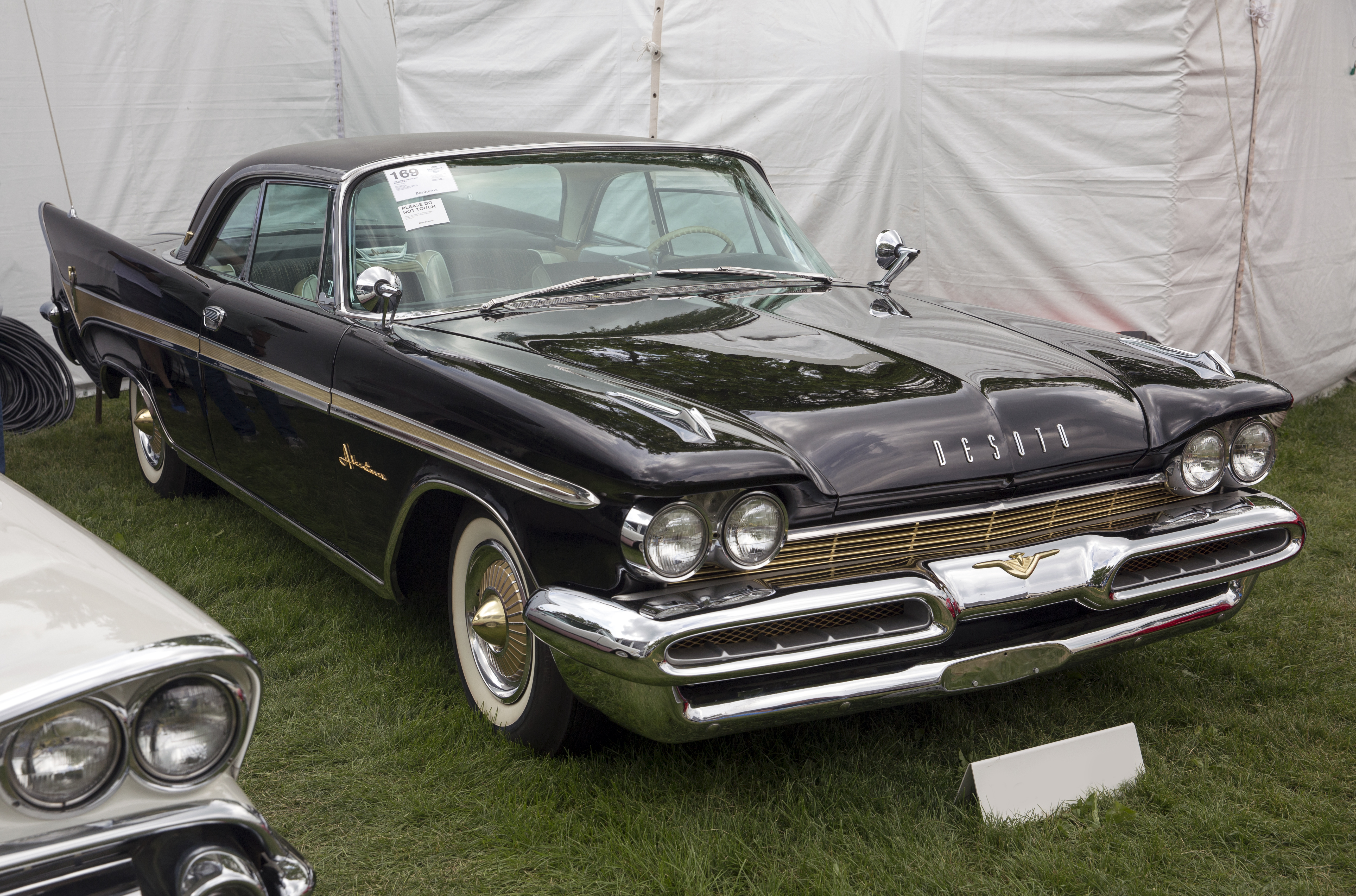 1959 De Soto Adventurer Sport Coupe, black with gold everythings, sold for $47,040 at the Bonhams auction attached to the 2018 Greenwich Concours d'Elegance. Only 590 Adventurer Sport Coupes were built in 1959, and were only available in white or black. 383ci four-barrel OHV V8 Engine with 350 hp at 5000 rpm and a three-Speed push-button automatic. Swivel seats! Air conditioning!